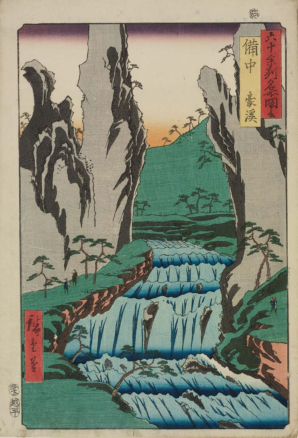 Part of the series Famous Places in the Sixty-odd Provinces, No. 48 (Sanyōdō group)